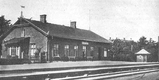 Borrby railway station at Ystad-Gärsnäs-S:t Olofs Järnväg in Sweden